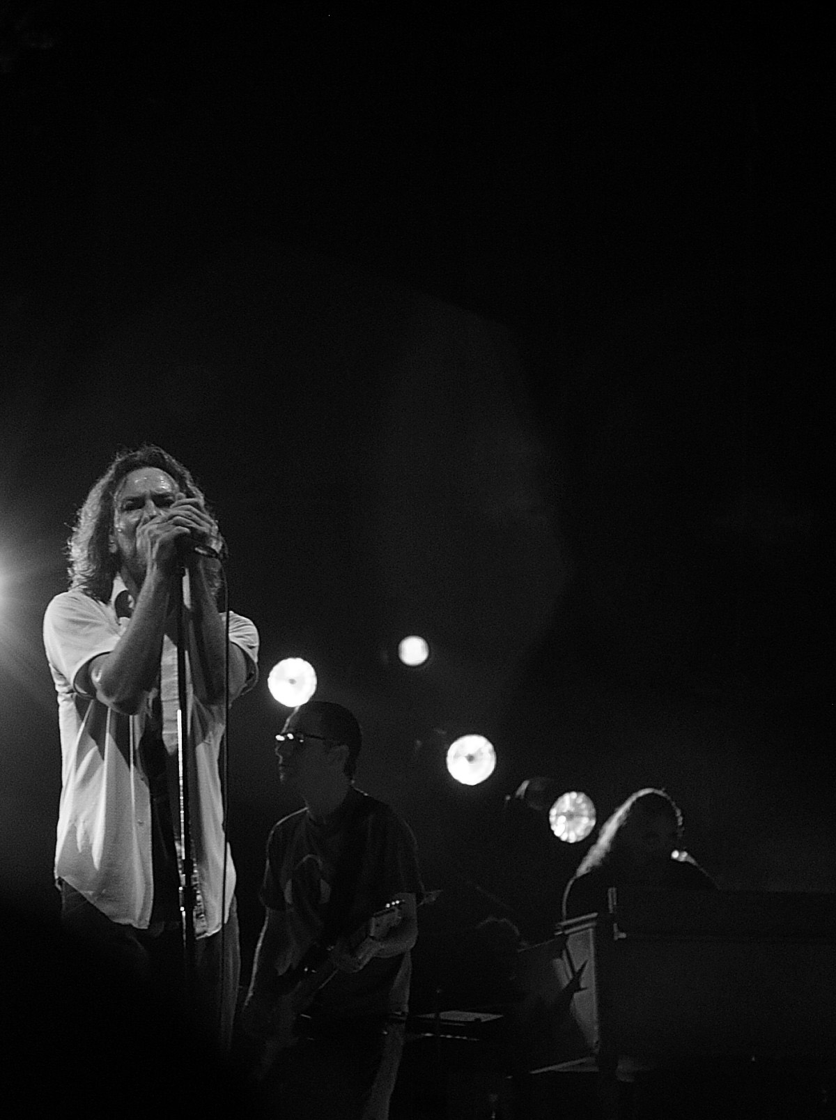 Pearl Jam playing live in Berlin